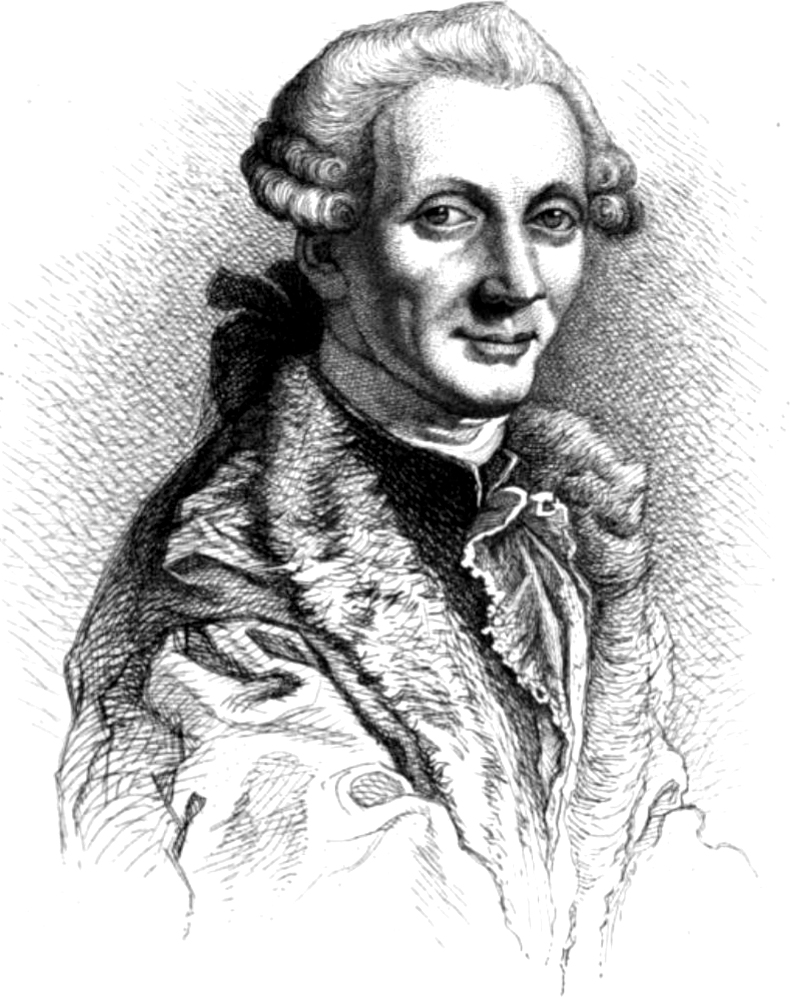 Niccolò Piccinni (1728-1800), Italian composer of symphonies, sacred music, chamber music, and opera.